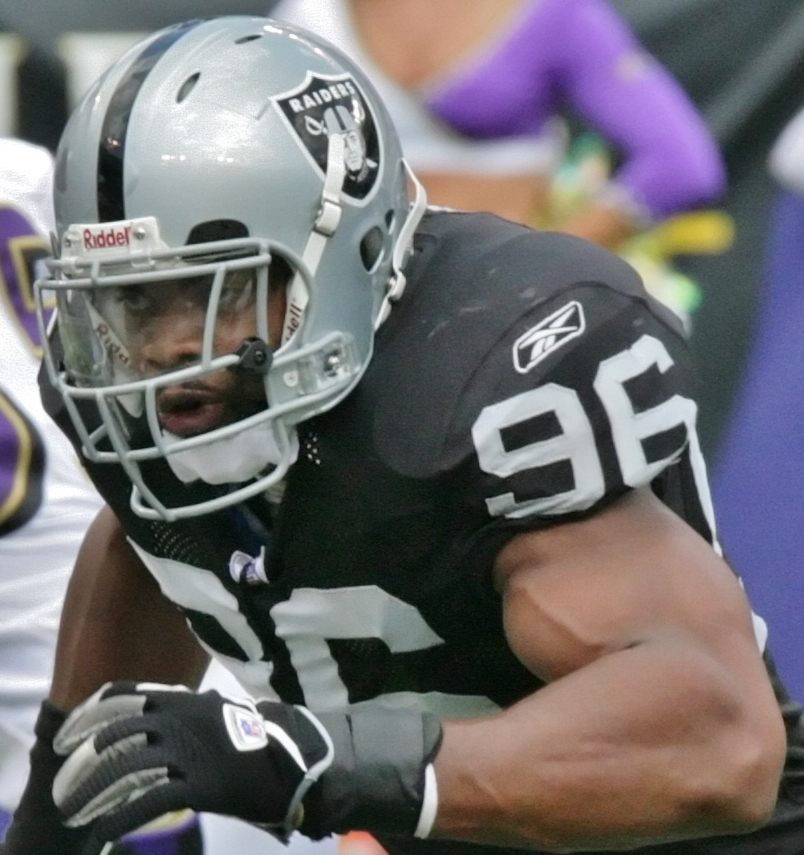 Raiders defensive end Grant Irons during 2006 game vs Ravens